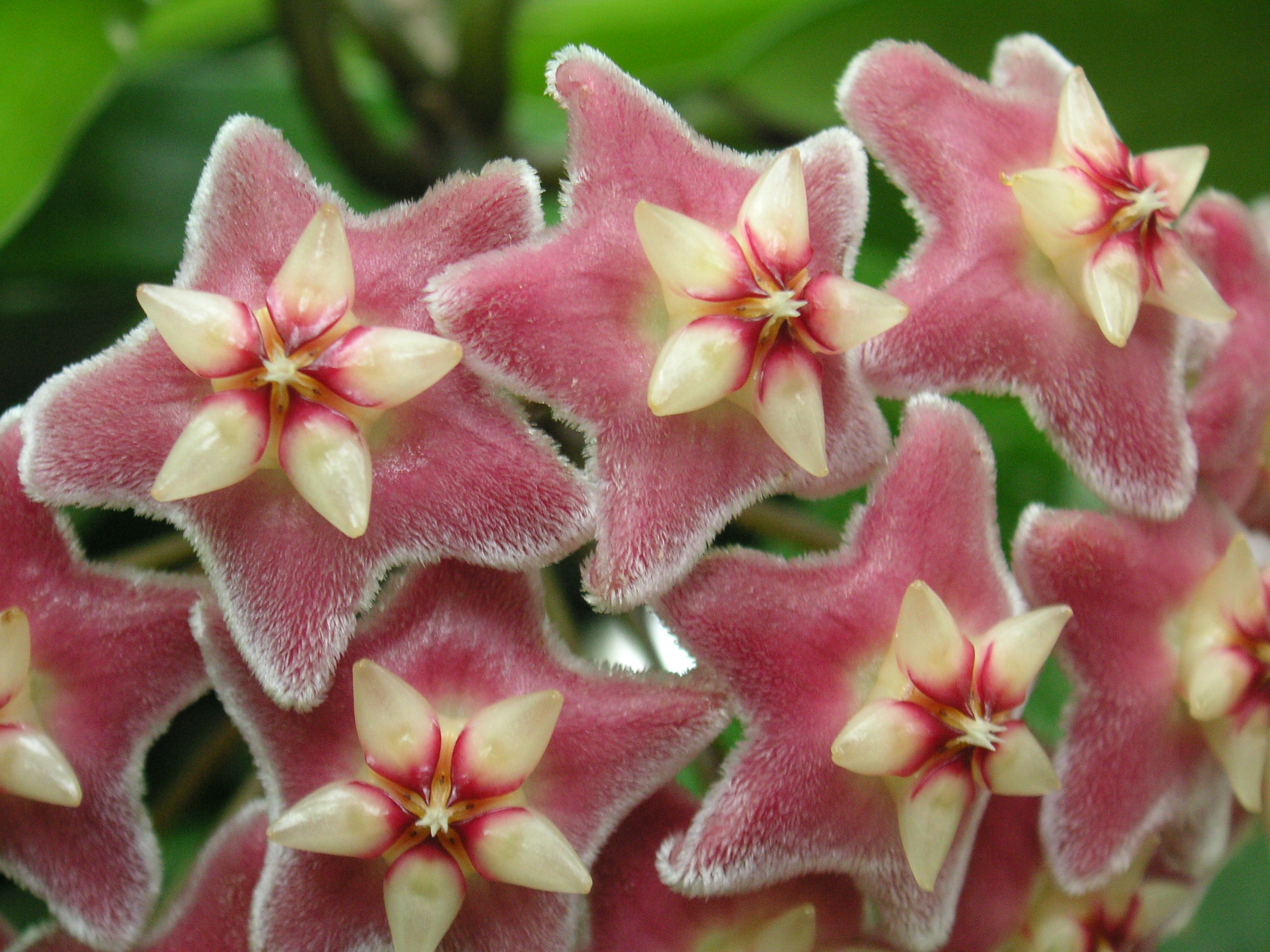 Close up of fuzzy pink flowers - Hoya. Conservatory of Flowers, Golden Gate Park, San Francisco, California, USA.